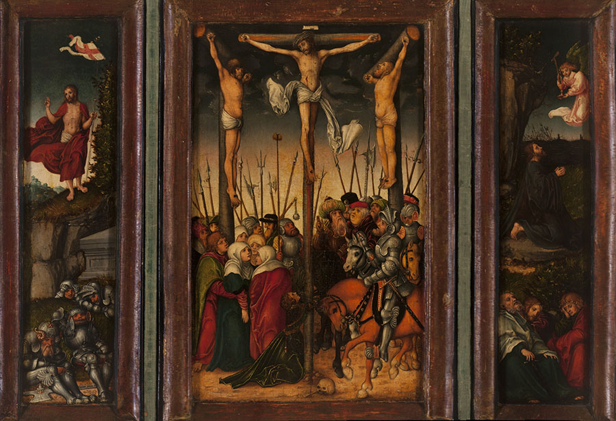 The crucifixion, the prayer in the garden and the resurrection